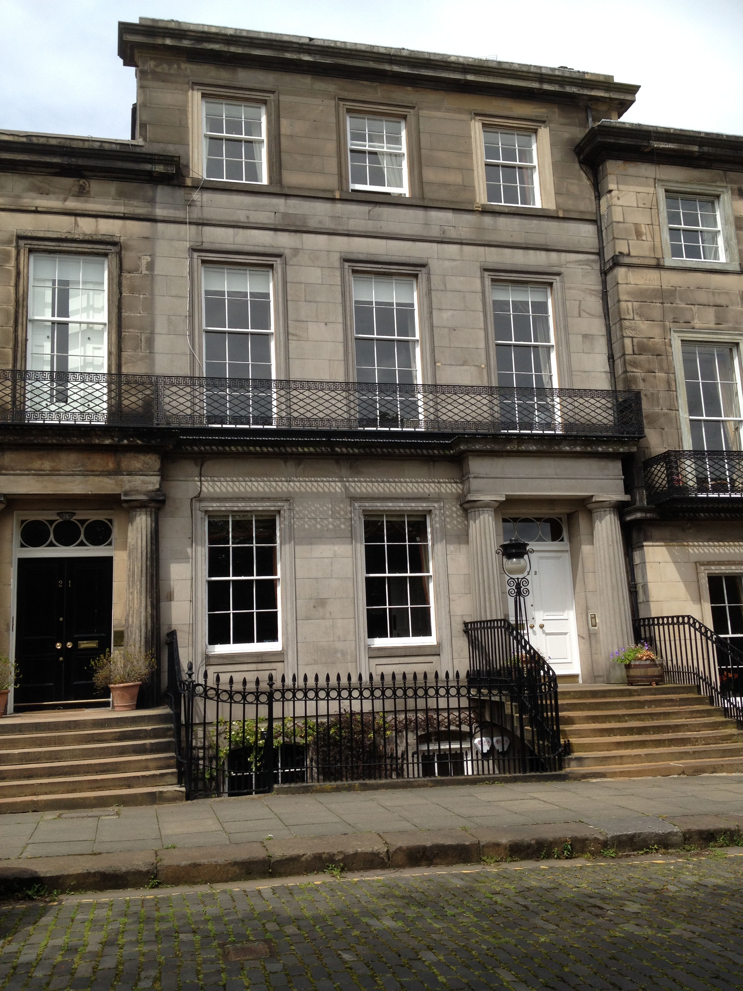 Front of 22 Regent Terrace, Edinburgh Wikidata has entry Q17567398 with data related to this item.